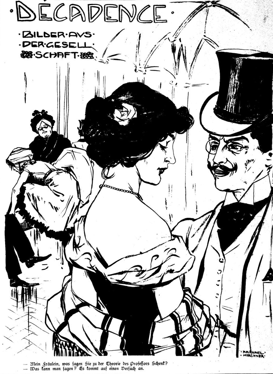 Caricature in Wiener Caricaturen